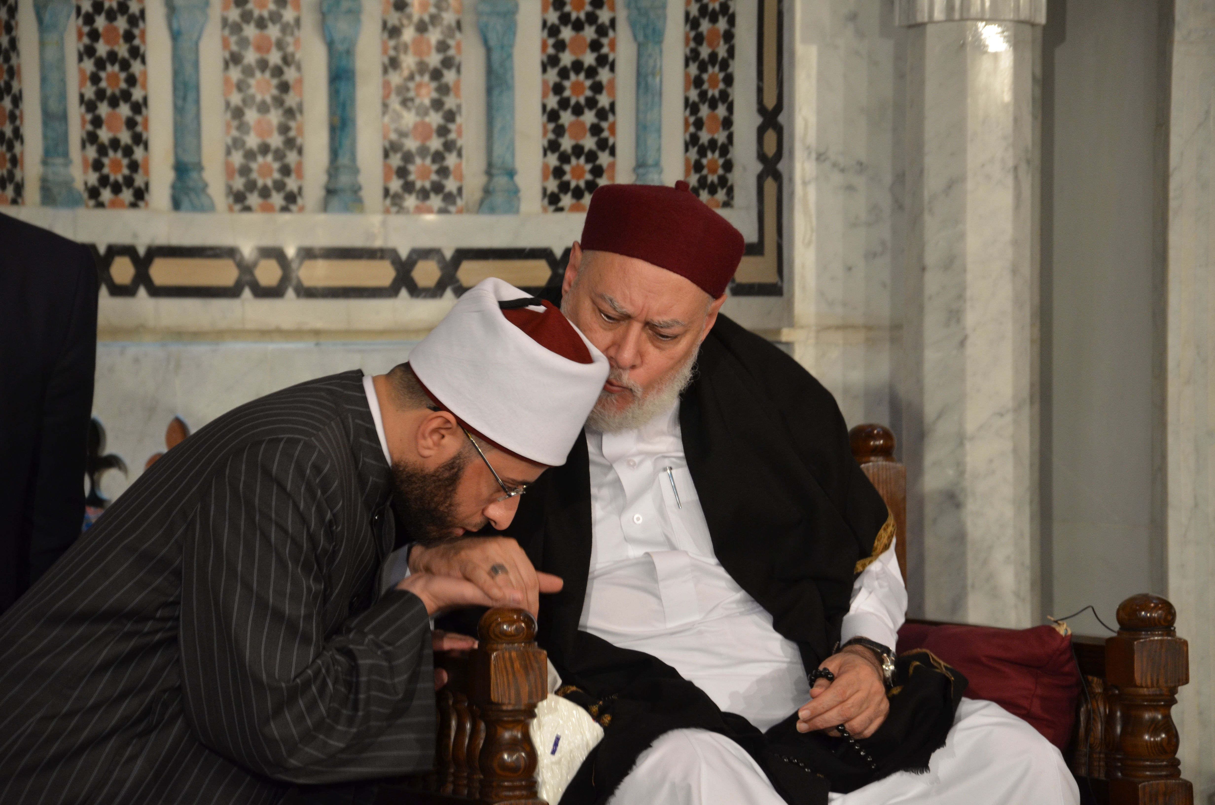 Dr. Ali Gomaa & Dr. usama alazhary